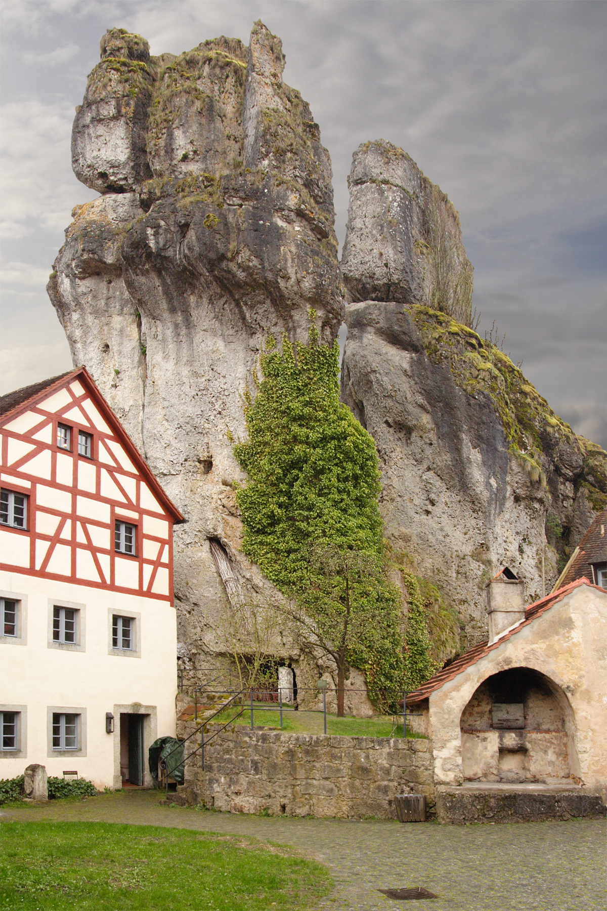 Tüchersfeld is a small settlement in "Franconian Switzerland", Franconian Jura. The castle-like assembly of houses rests on elevated rocks, that form cretaceous towerkarst. This in Europe rare geological phenomenon of tropically weathered dolostone, is only found in the northern part of the Franconian Jura. The house assembly is called "Judenhof" (The Juwesh houses). The discrimination of the jews throughout the second millenium in Franconia saw interim times, where jews were allowed to live relatively unharmed in so called Judenhofs. After renovations the "Judenhof" became "Museum Fränkische Schweiz" in 1985.